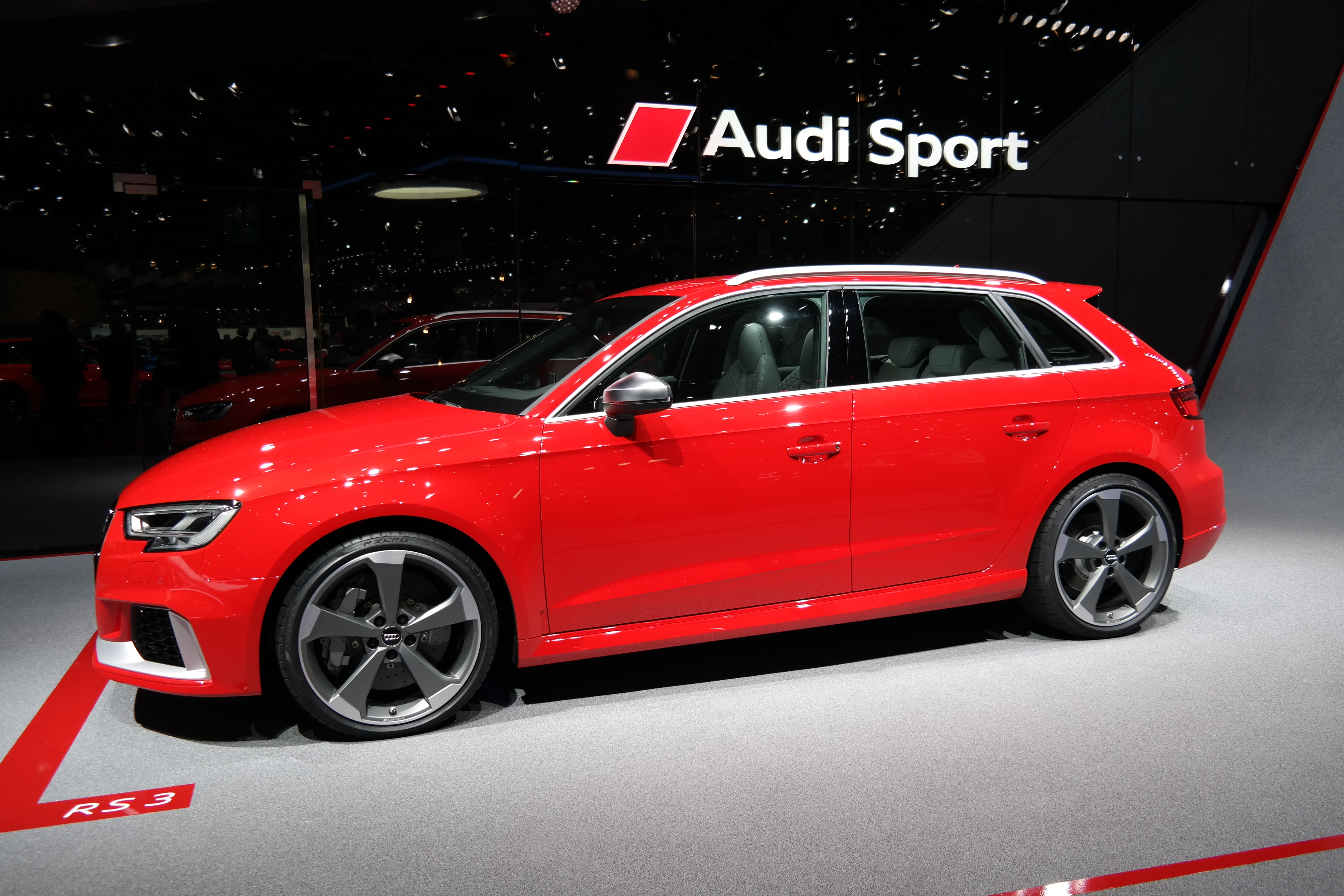 Geneva Motor Show 2017 (photo taken on the first press day)